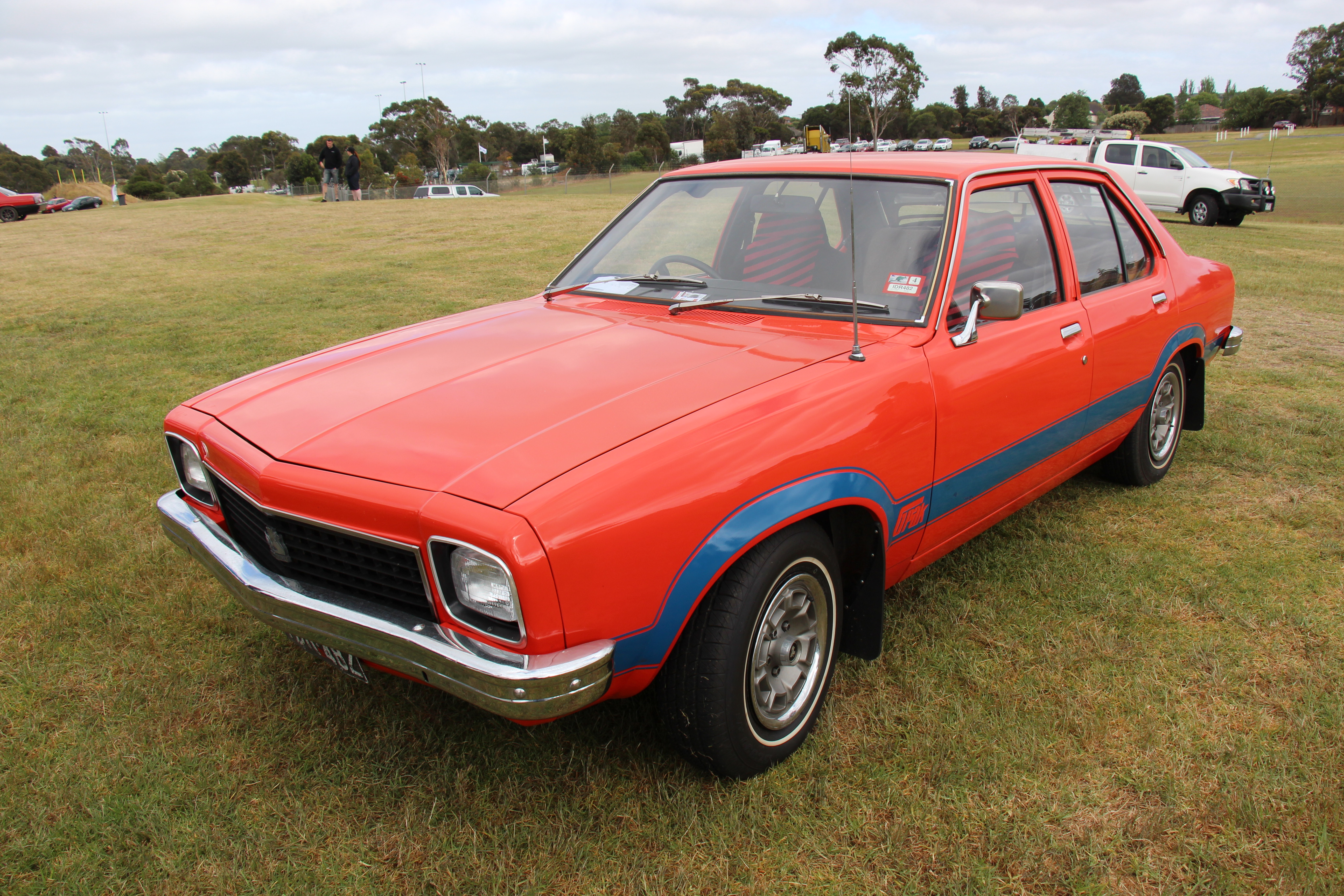 Holden LH Torana Gpac